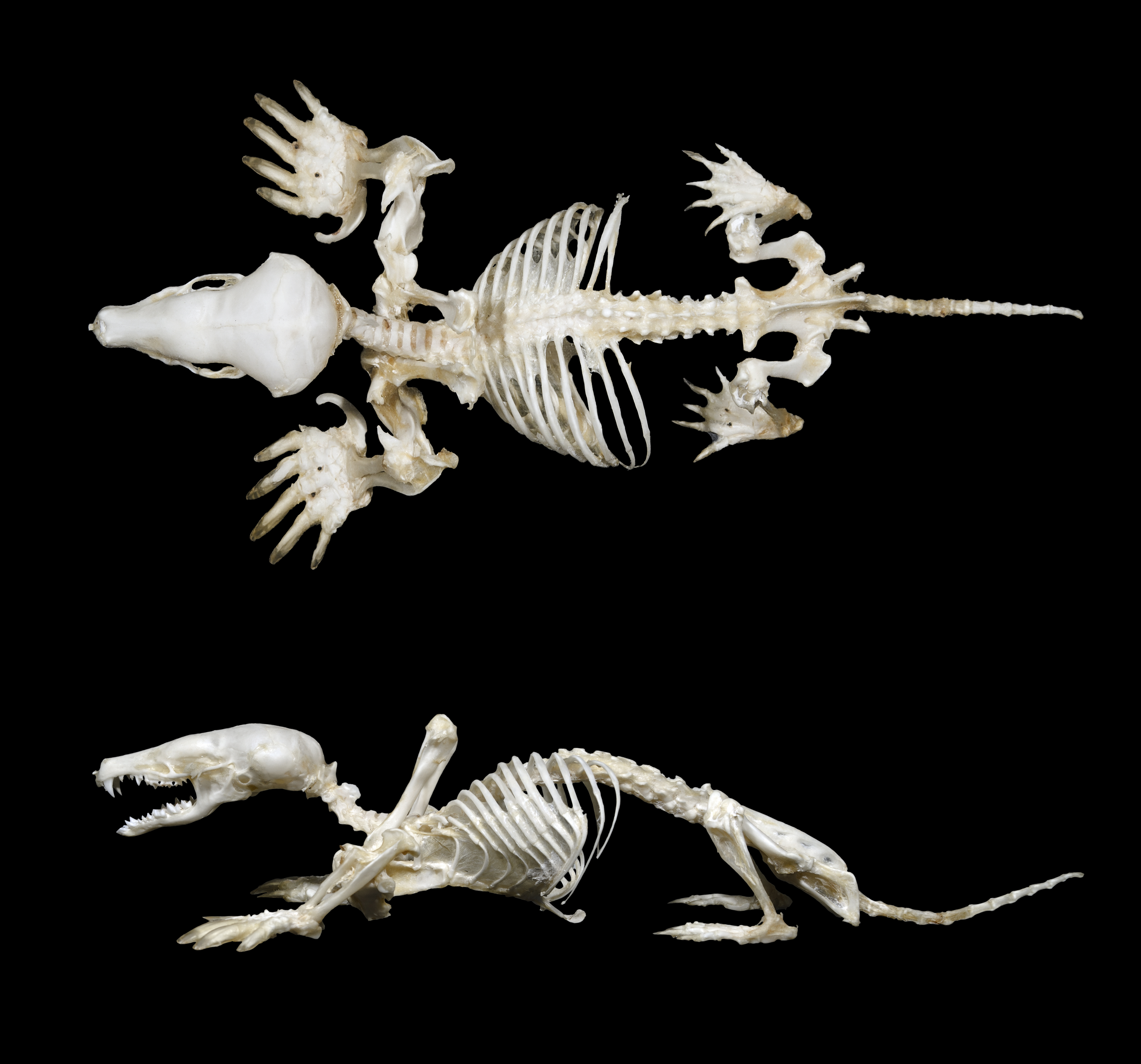 European Mole (Talpa europaea) - Skeleton Size : 15 cm